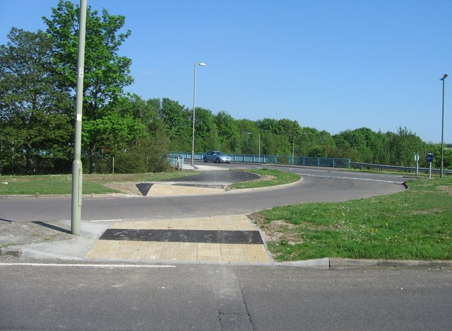 Improving the road crossing. See also 780393.